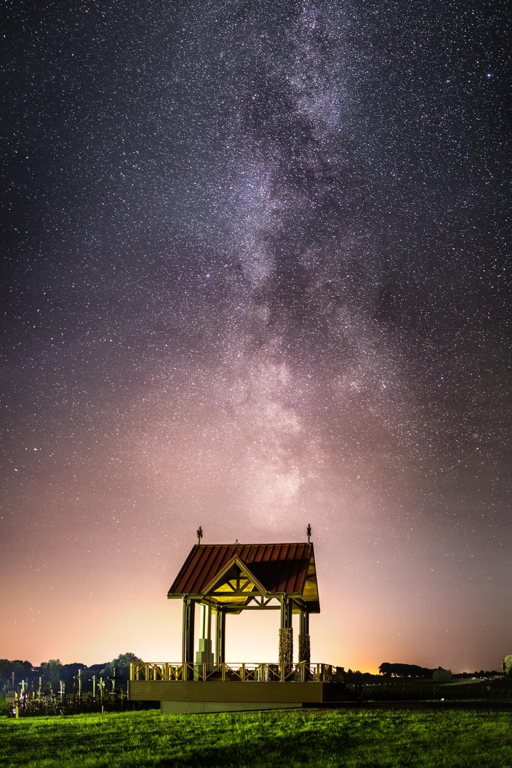 Hill of Crosses (chapel), Lithuania